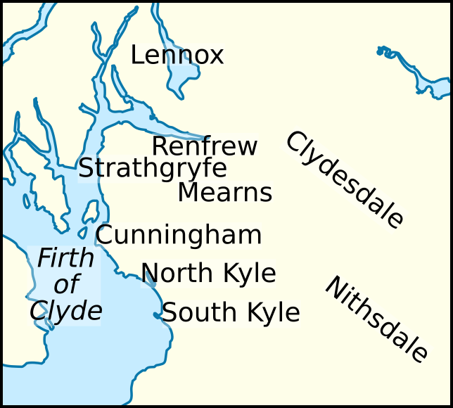 Map for the Wikipedia article concerning Walter fitz Alan, Steward of Scotland (died 1177).